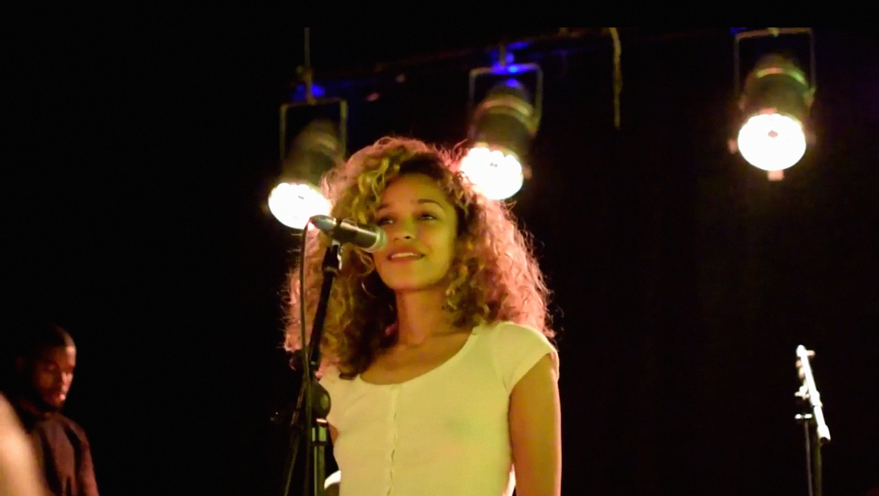 Izzy Bizu performing at London Fields Brewery in September 2015